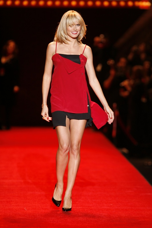 Heidi Klum modeling at The Heart Truth Fashion Show 2008